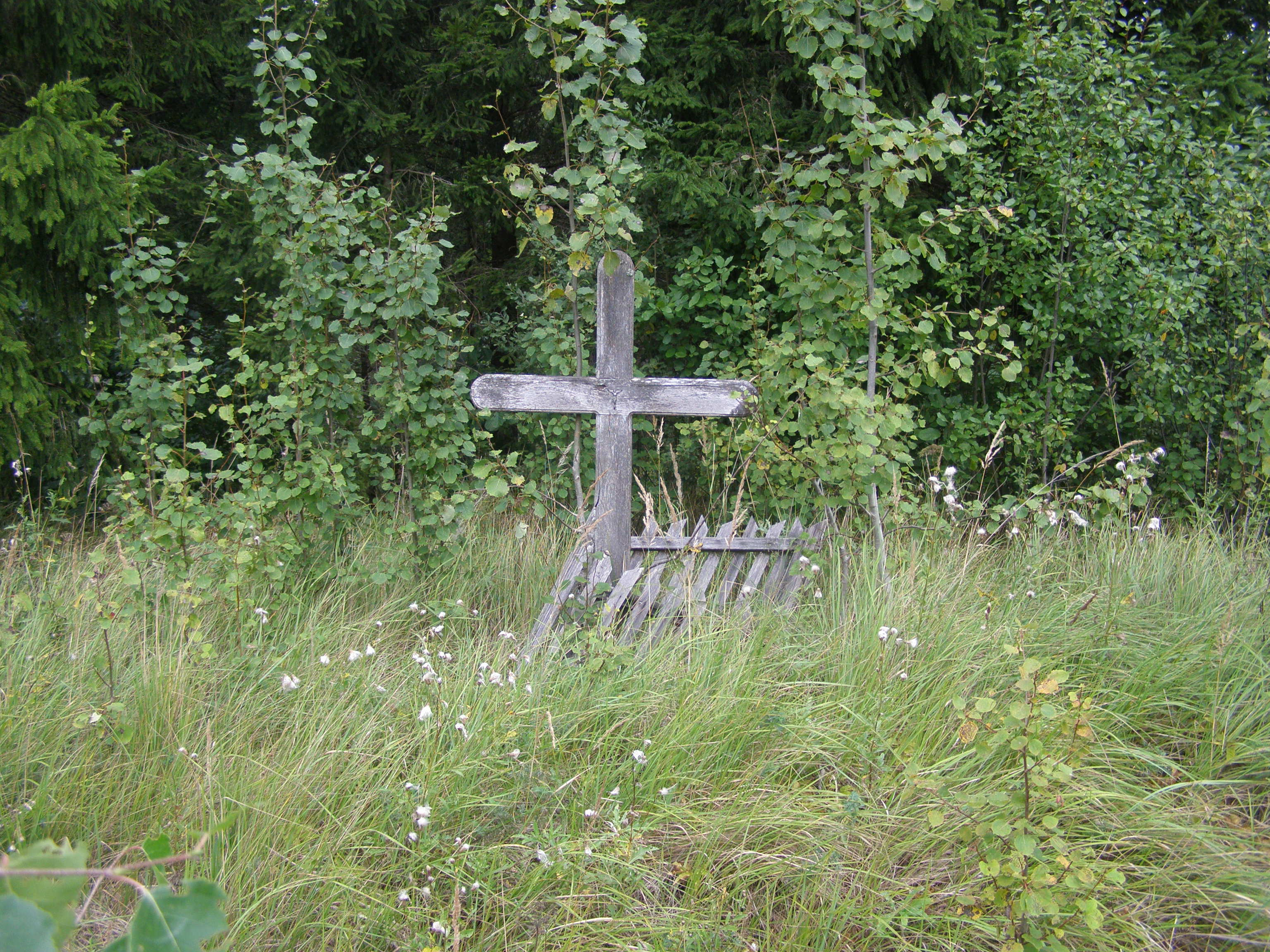 Didieji Žalimai, Kretinga district, LithuaniaLietuvių: Kryžius Kardo rinktinės štabo narių žuvimo vietoje Didžiųjų Žalimų kaime, Kretingos rajonas, Lietuva